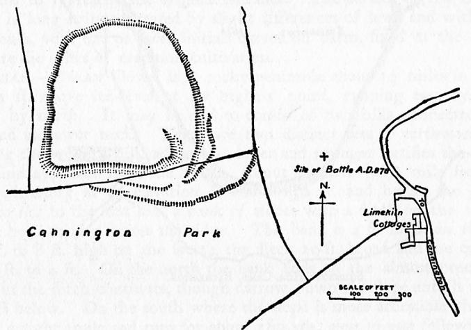 Map of earthworks at Cynwits Castle, Cannington, Somerset, England.